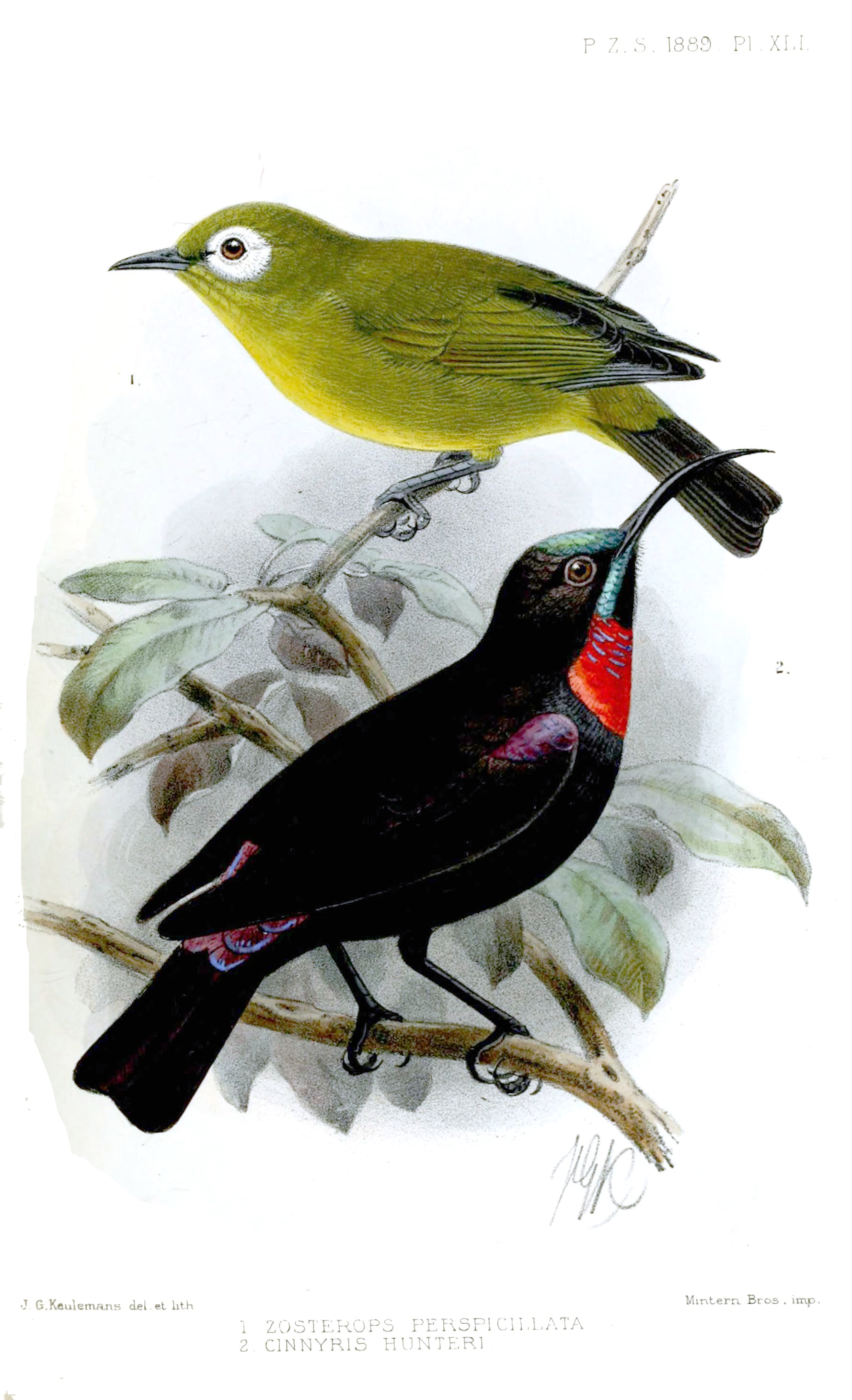 Adult African Montane White-eye (above) and adult male Hunter's Sunbird (below)